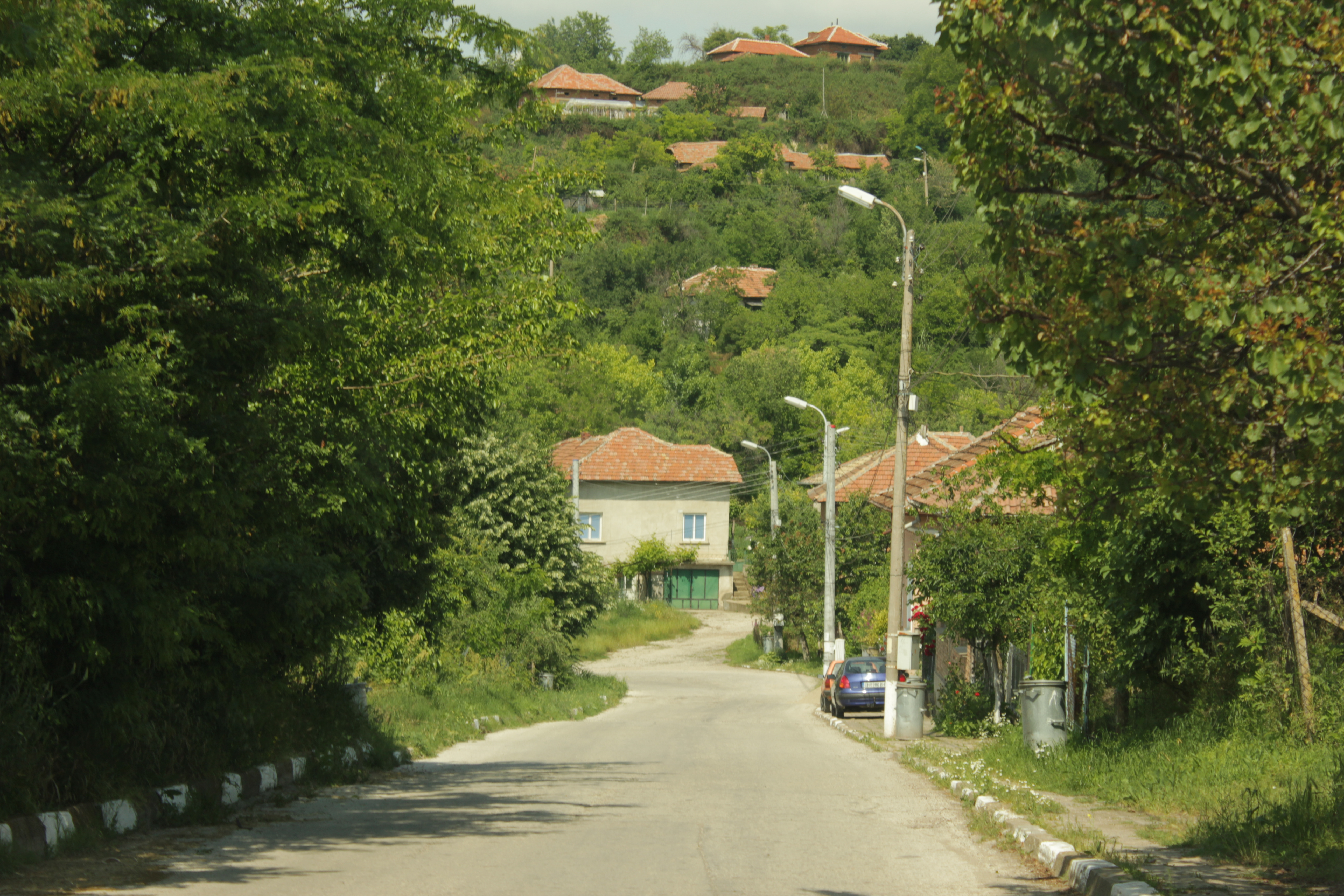 A Somovit street